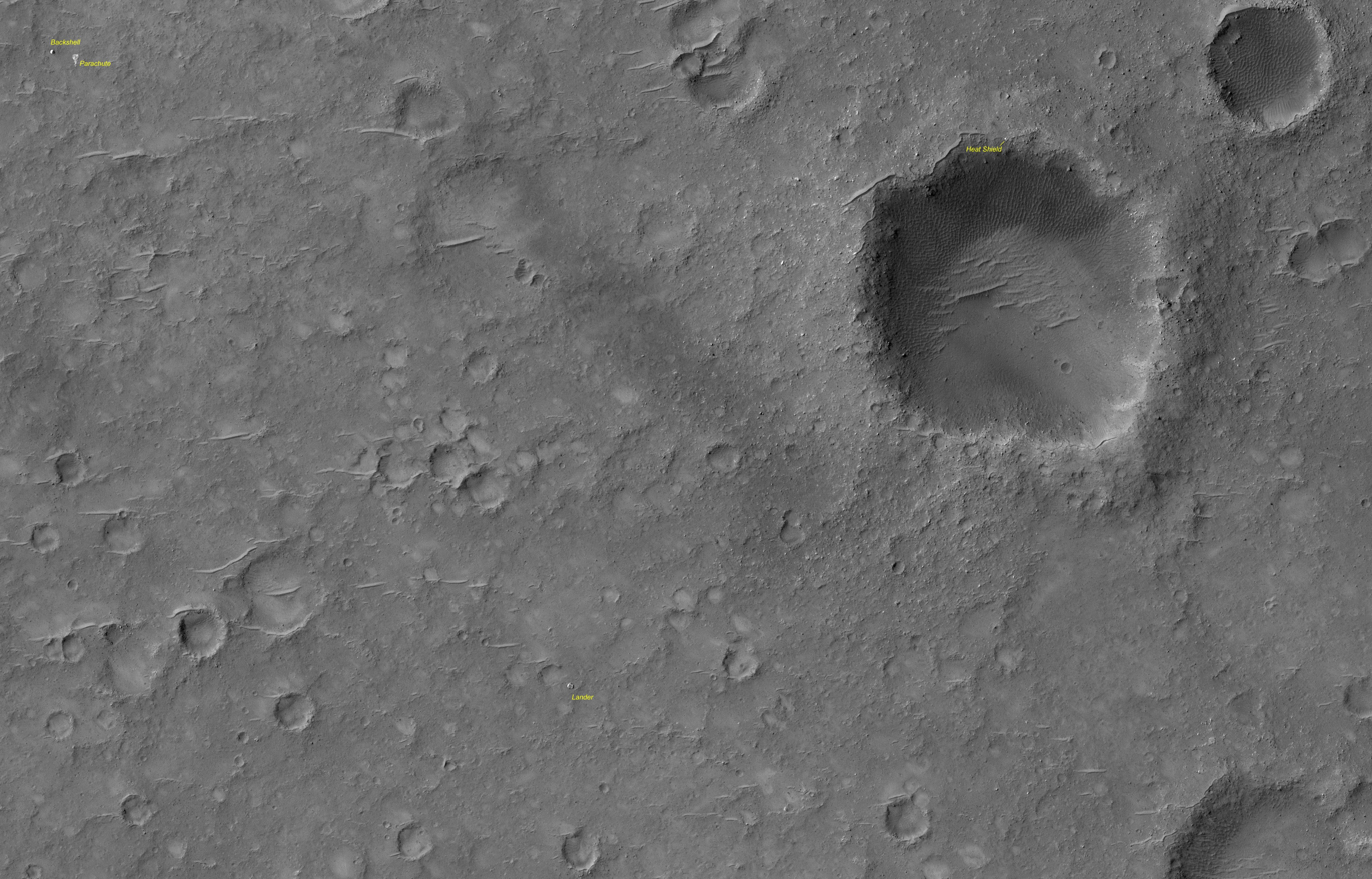 This part of HiRISE image (PSP_001414_1780_RED.jp2) shows the landing site of the Mars Exploration Rover Spirit File: PSP_001513_1655_RED.browse.jp2 Author: NASA/JPL/University of Arizona License: Data: 2006-12-04